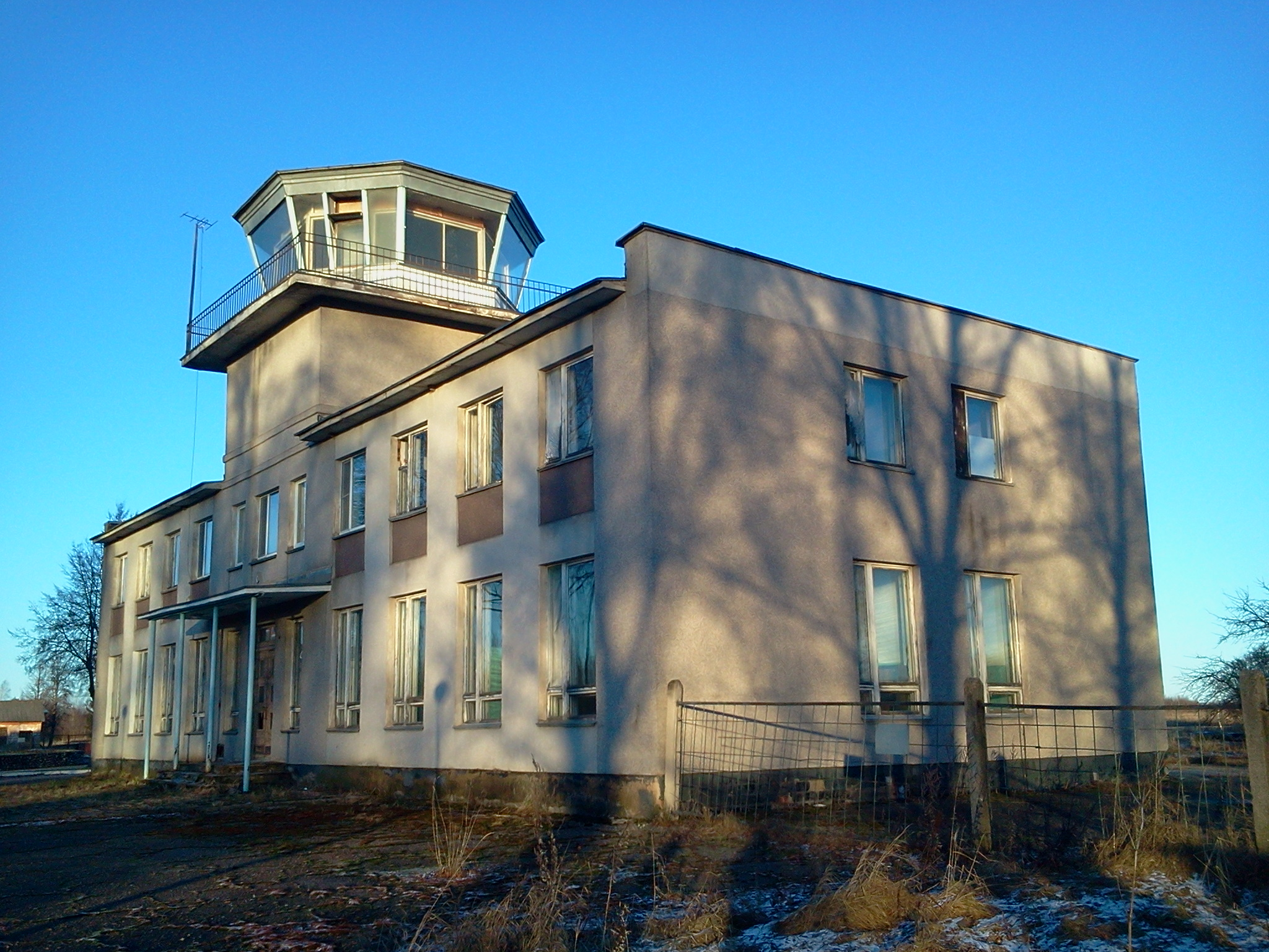 Former air terminal